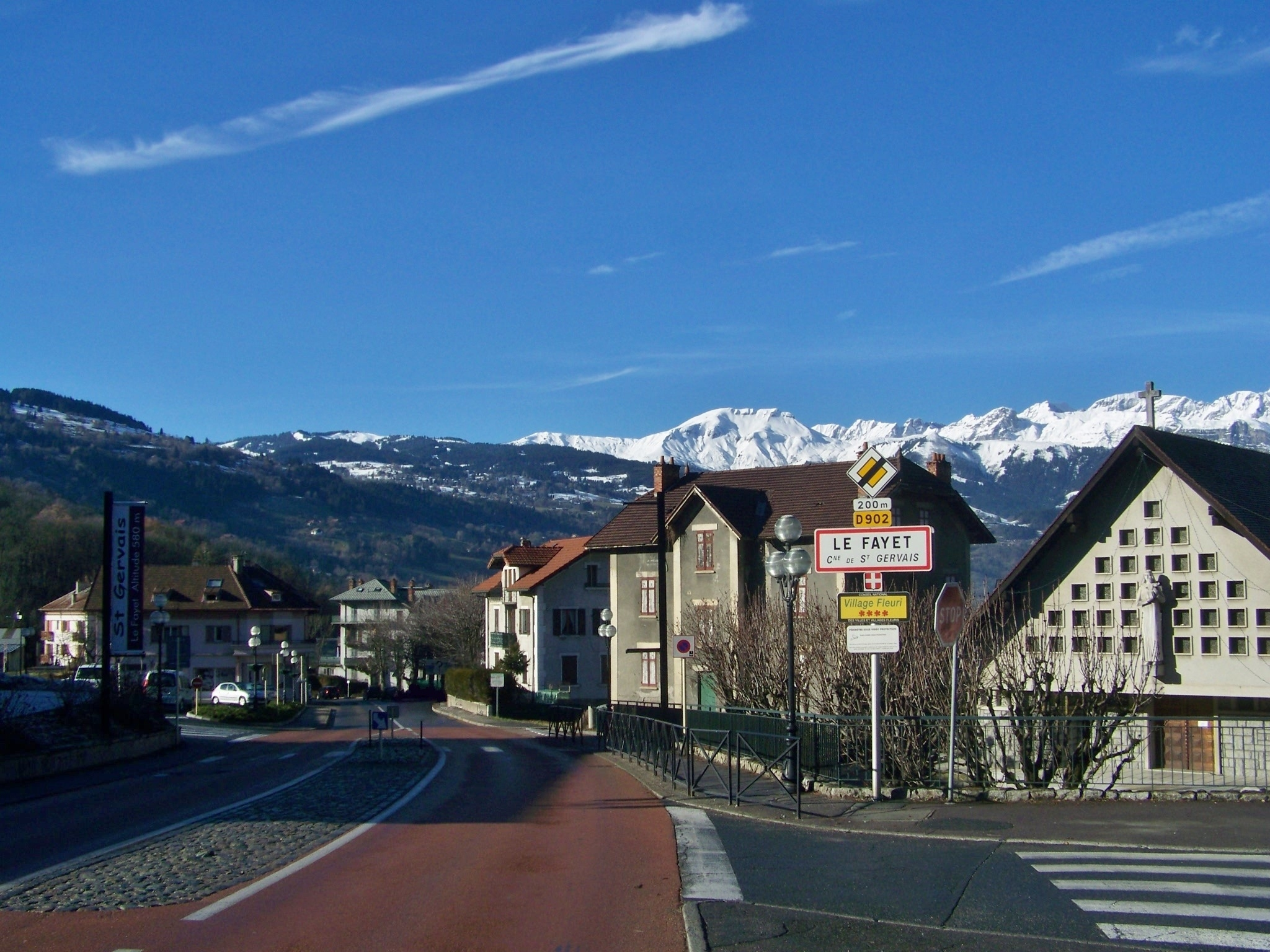 Welcome sign to Le Fayet, part of city of Saint-Gervais-les-Bains, in Haute-Savoie, France.